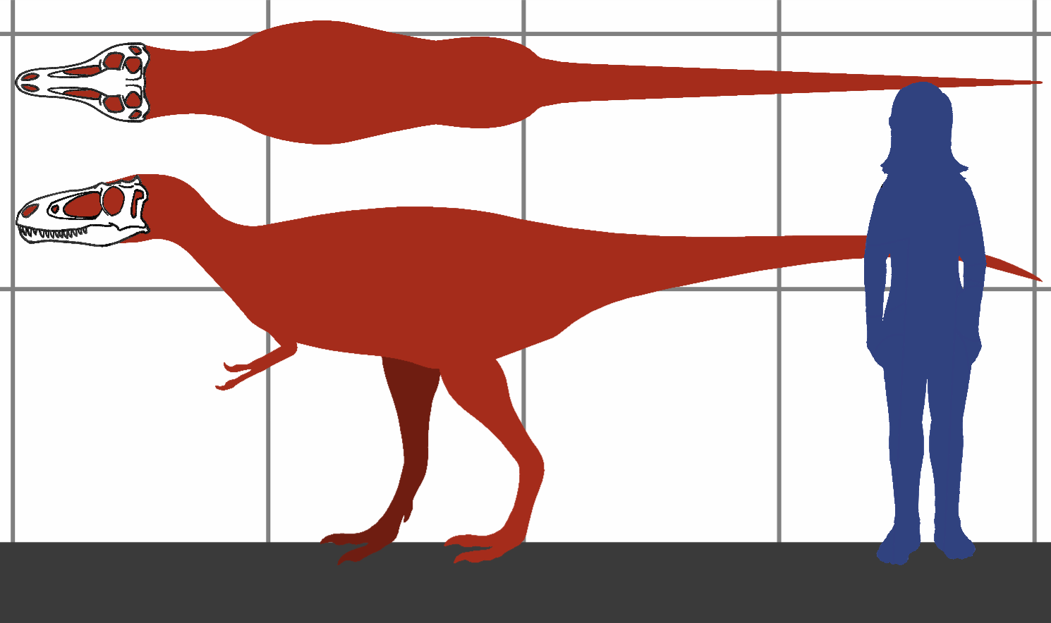 Guessed size of the ~50 cm. long tyrannosaurid skull CMNH 7541, labelled as Nanotyrannus lancencis or a juvenile Tyrannosaurus rex. The skull drawing is based on other detailed drawings and photographs. References Drawings of CMNH 7541 inj different angels, showed in “Interview with Peter Larson about the 'Montana Dueling Dinosaurs'” (uploaded at ‘’ by “bhiadmin”, 4-11-2011). [1], [2]: photographs] of CMNH 7541 on WitmerLab's website.